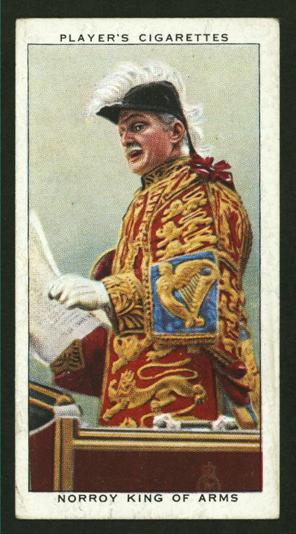 Player's cigarettes. Coronation series, ceremonial dress: Algar Howard, the Norroy King of Arms